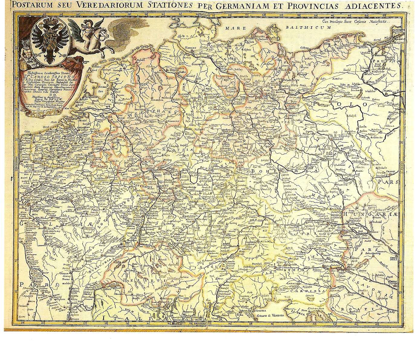 Old map of Germany, the Netherlands, Belgium, Poland, Czechia, Hungary etcetera. Postal route.